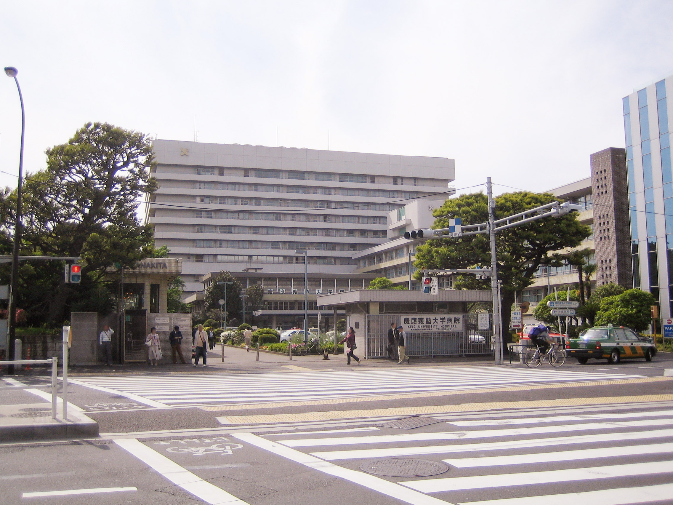 Keio University Hospital (慶応義塾大学病院), in Shinjuku, Tokyo, Japan